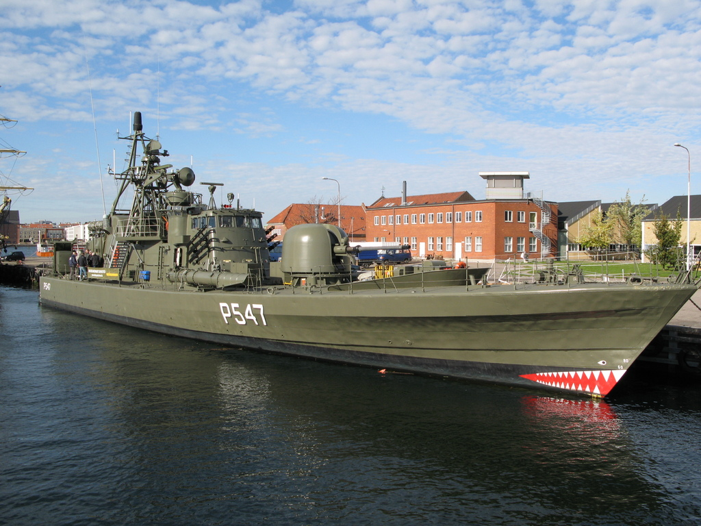 A danish navy Willemoes-class fast attack craft (missile + torpedoes). This class was finally disbanded in 2000.